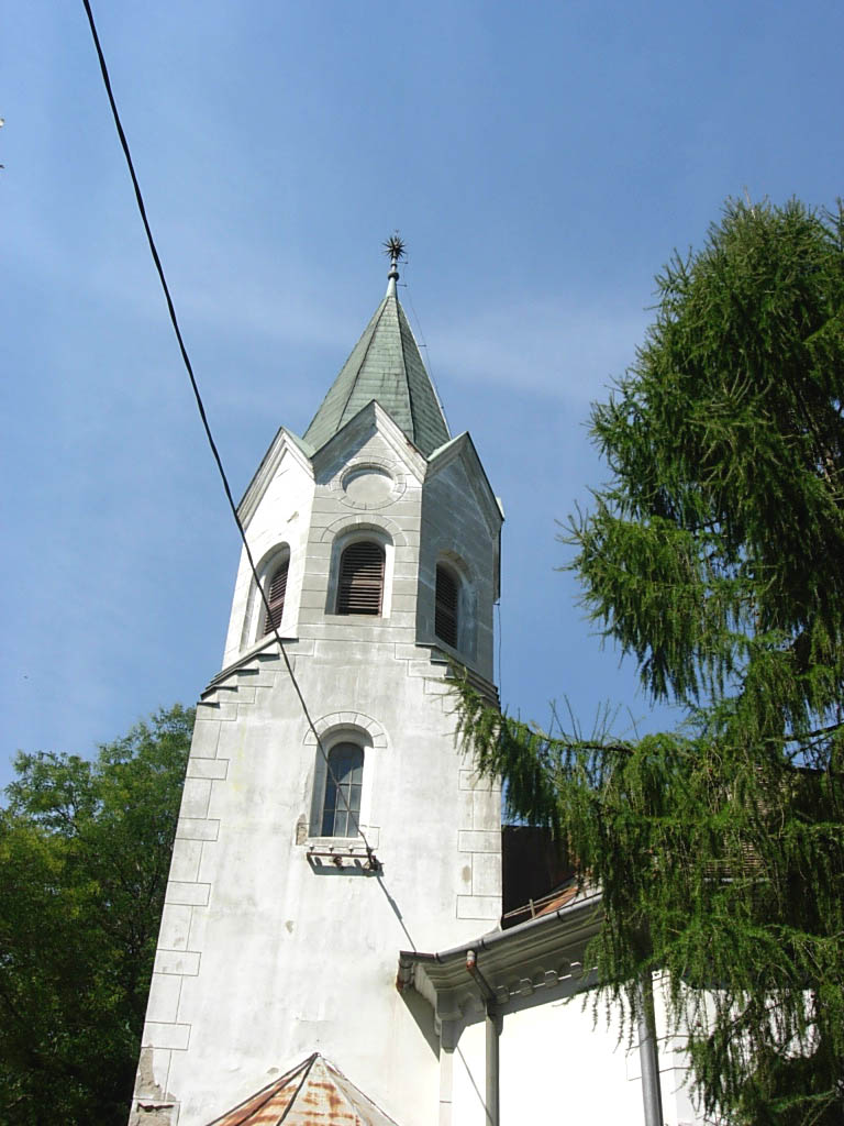 The Calvinist church in Vojlovica.